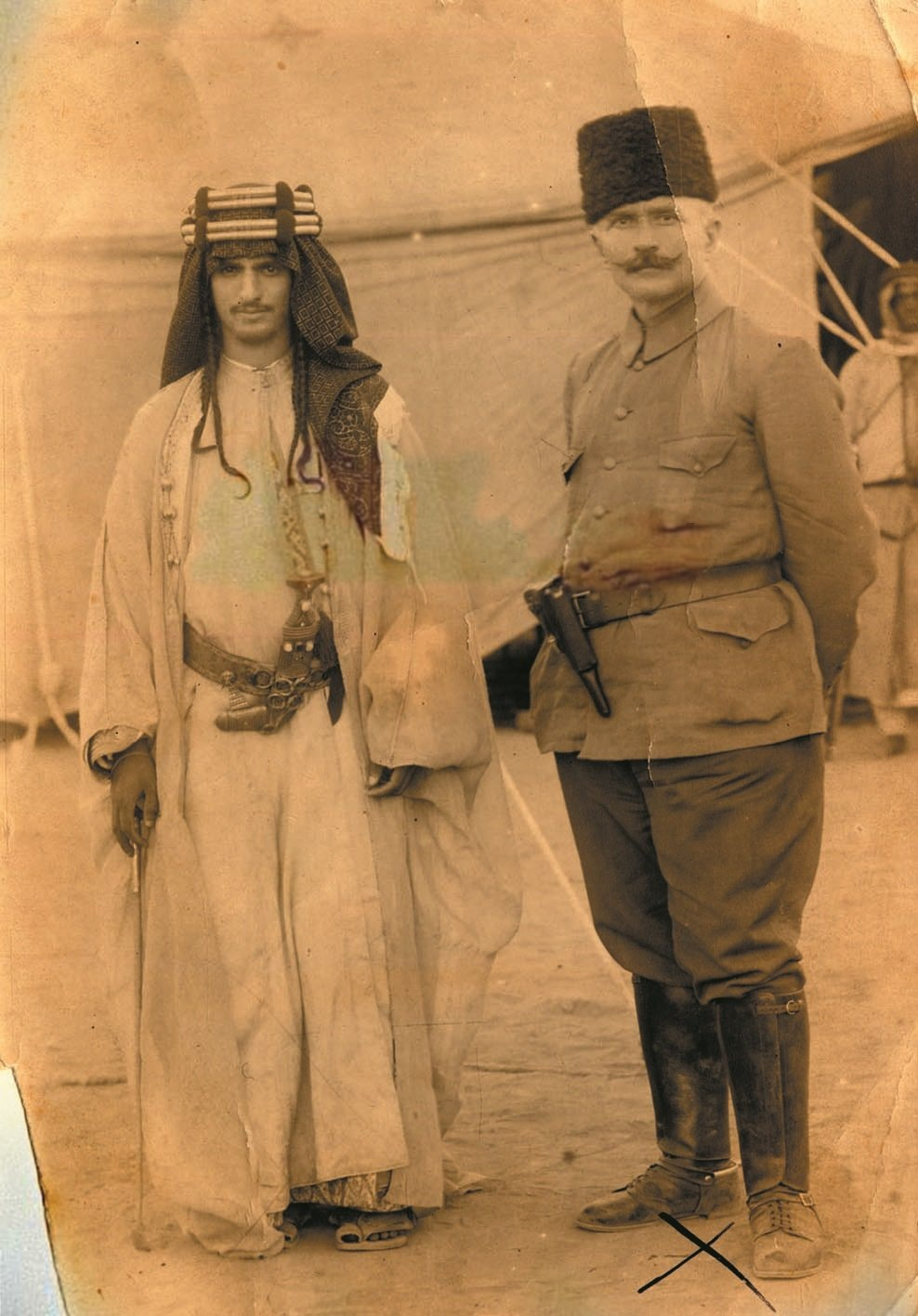 Saud bin Abdulaziz with Ottoman governor and general, Fakhri Pasha.